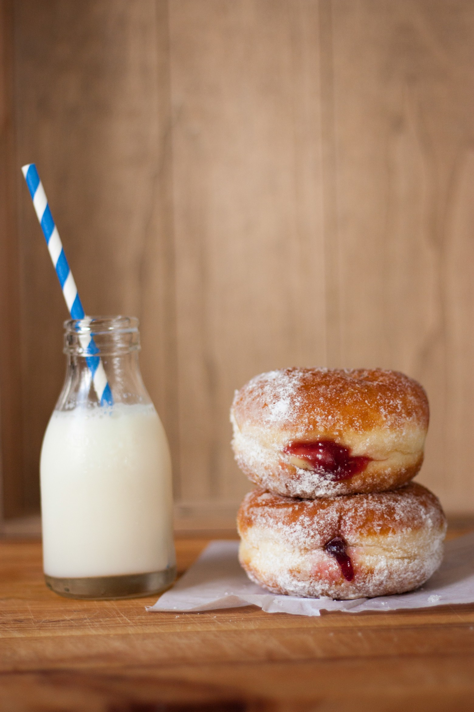 Milk bottle and two doughnuts